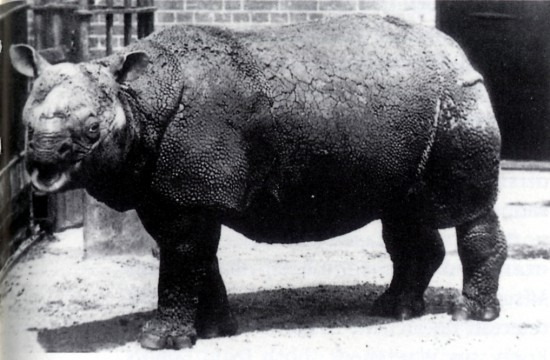 Javan Rhino (Rhinoceros sondaicus sondaicus) shown in the London Zoo from march 1874 until january 1885. It was captured in Jakarta.[1]